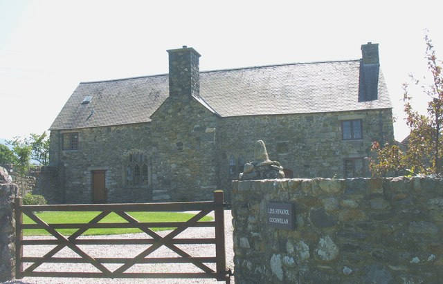 Llys Hynafol Cochwillan Medieval Hall-House